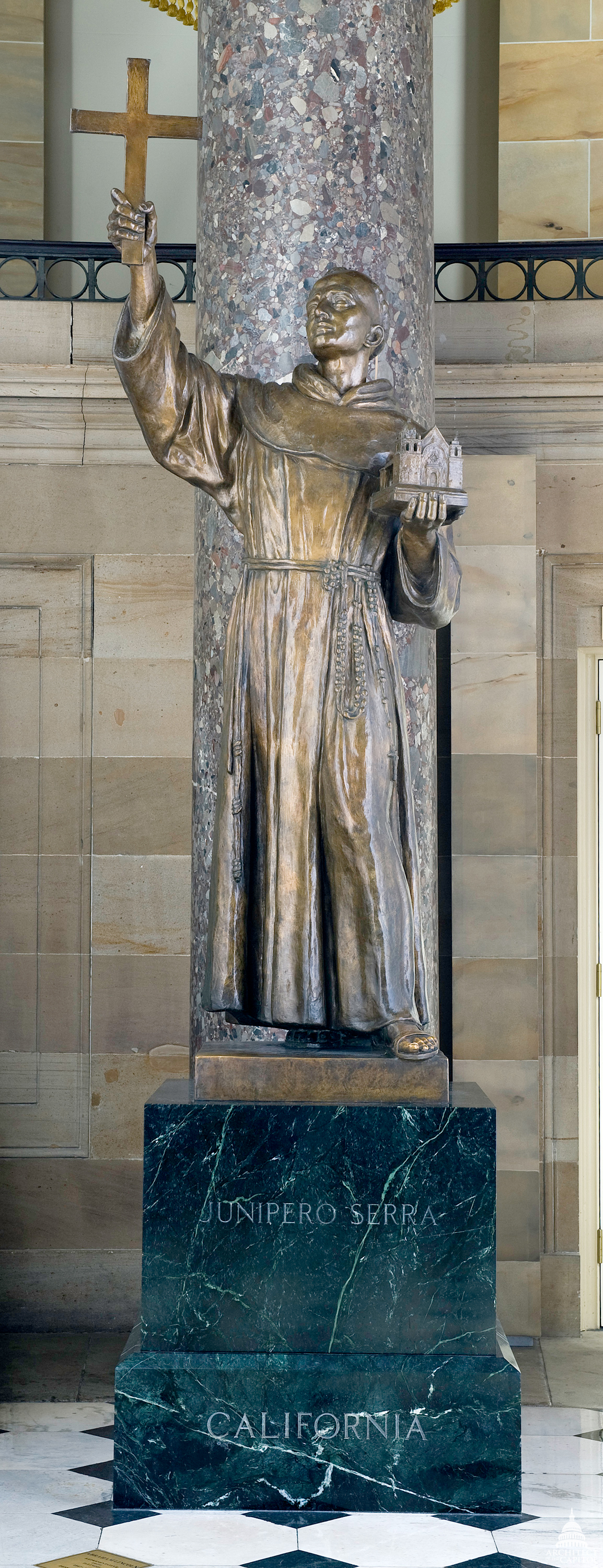 Father Junipero Serra (1713-1784) California Bronze by Ettore Cadorin Given in 1931 National Statuary Hall U.S. Capitol This official Architect of the Capitol photograph is being made available for educational, scholarly, news or personal purposes (not advertising or any other commercial use). When any of these images is used the photographic credit line should read “Architect of the Capitol.” These images may not be used in any way that would imply endorsement by the Architect of the Capitol or the United States Congress of a product, service or point of view. For more information visit